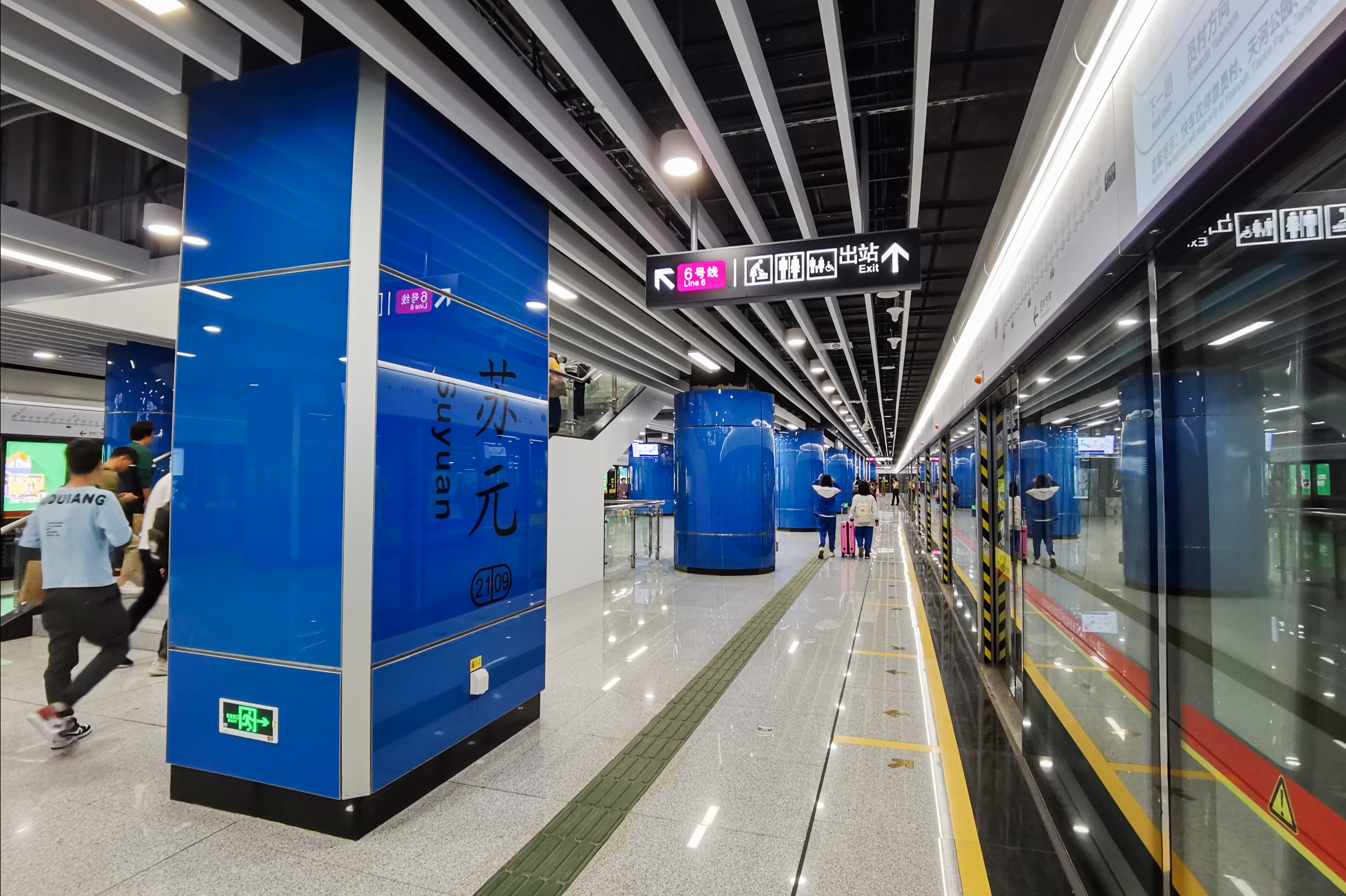 广州地铁苏元站